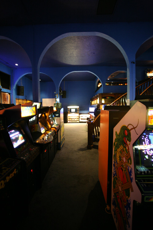 Ground Kontrol, 11/12/2005